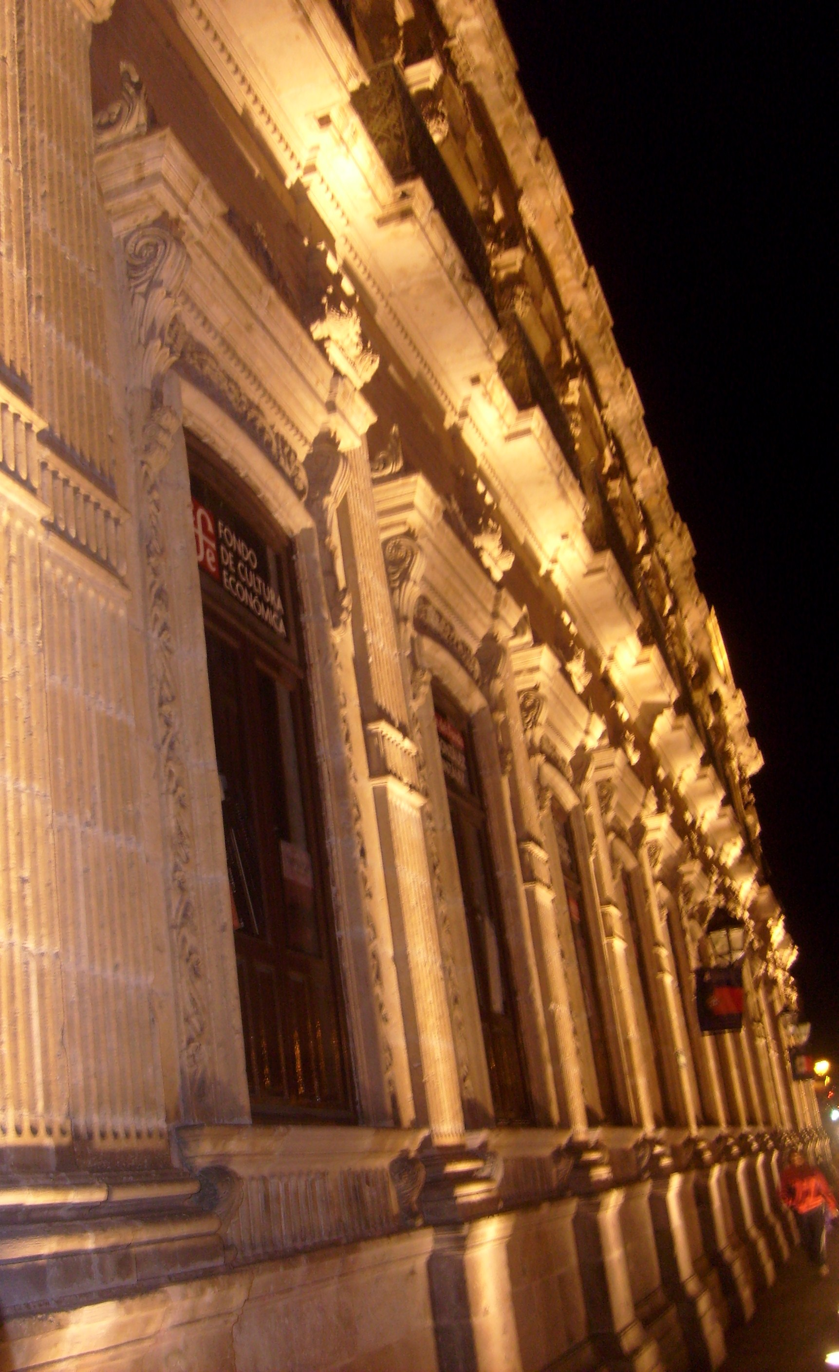 asi se ve en la noche el palacio federal